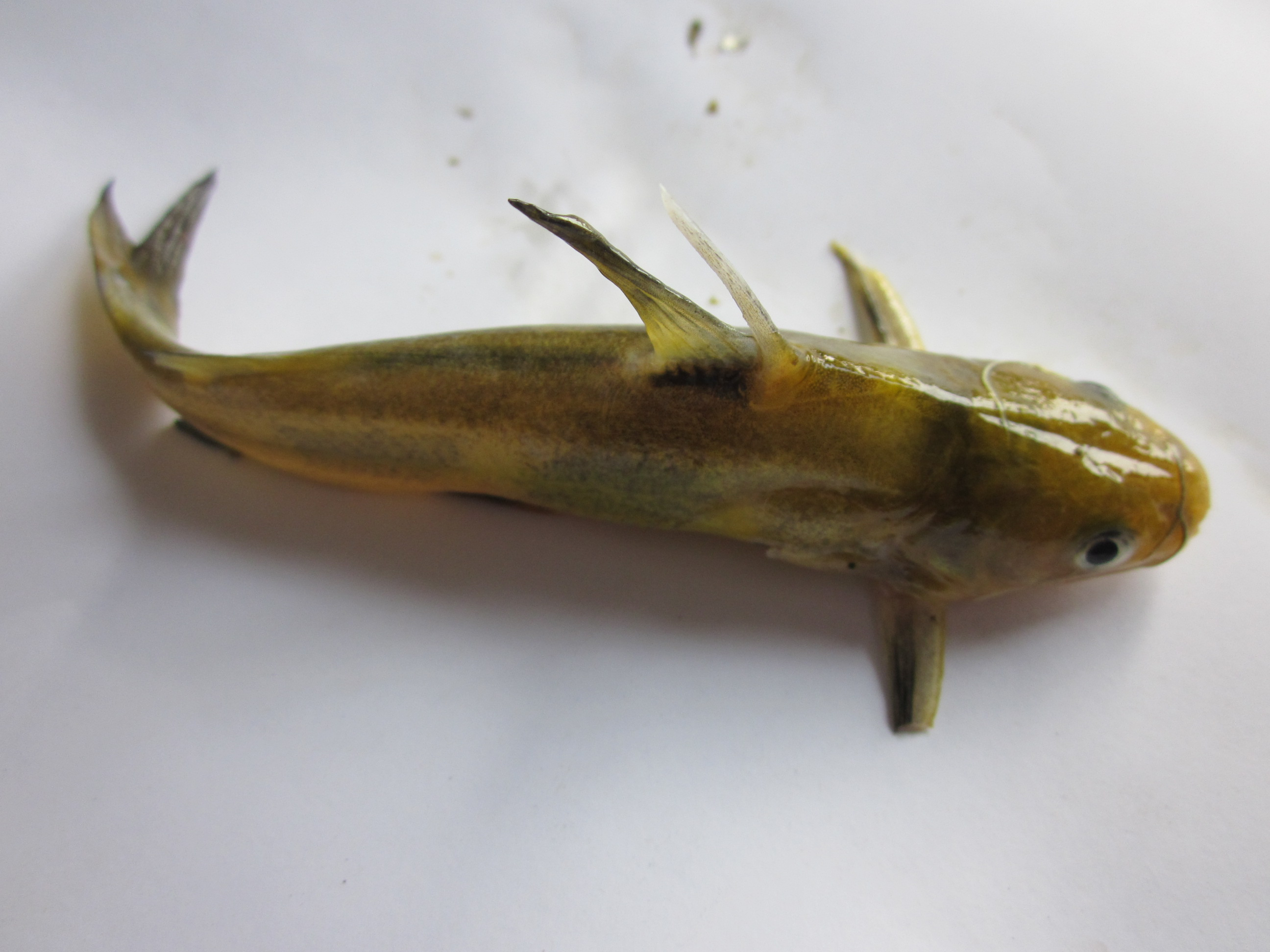 Yellow catfish Pelteobagrus fulvidraco is one of the commercial aquaculture species in China, which has delicious taste with little bone among muscle, and high nutritional value.